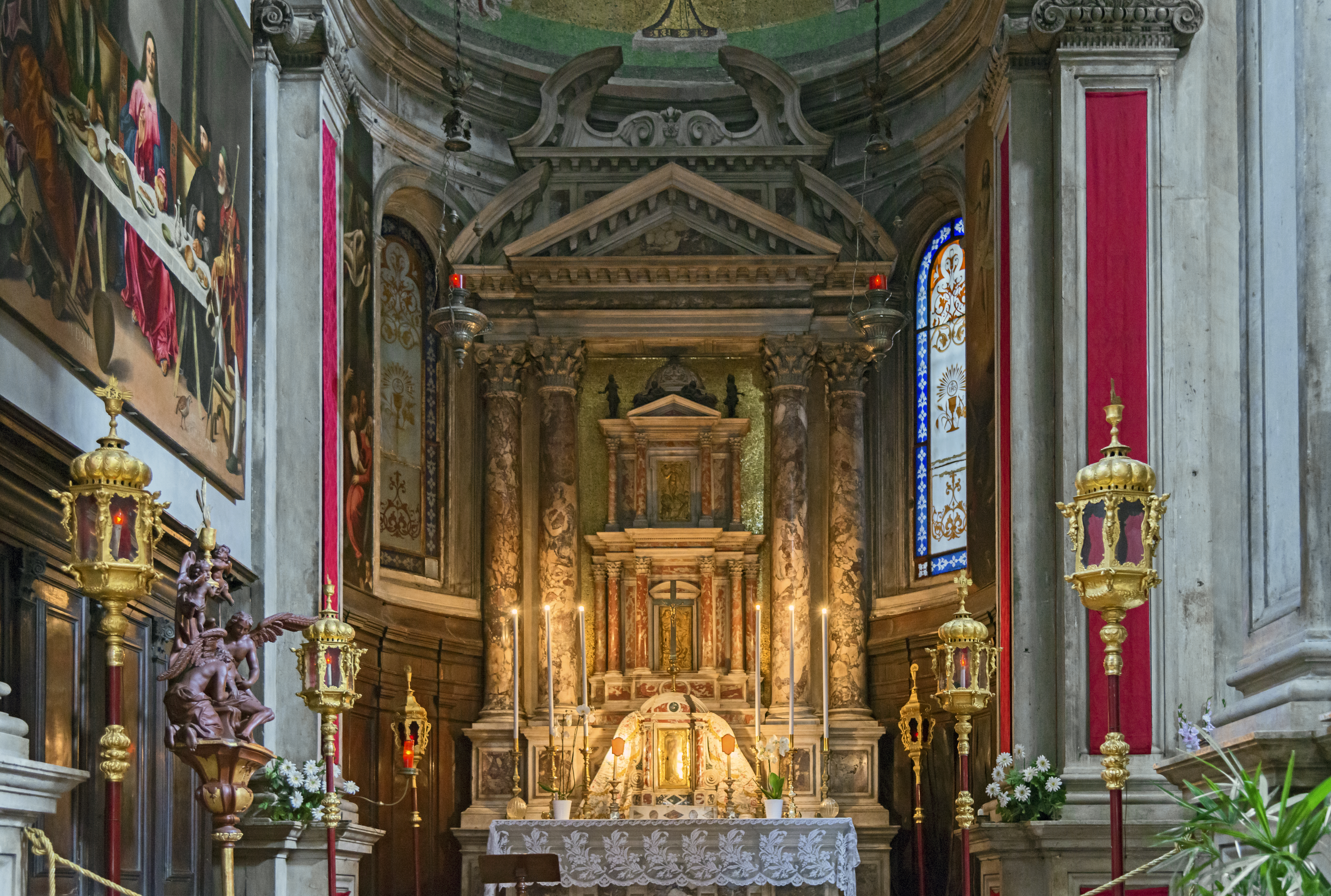 Church of San Salvador, in Venice, the chapel on the left of the choir is dedicated to the Blessed Sacrament by Tullio Lombardo.